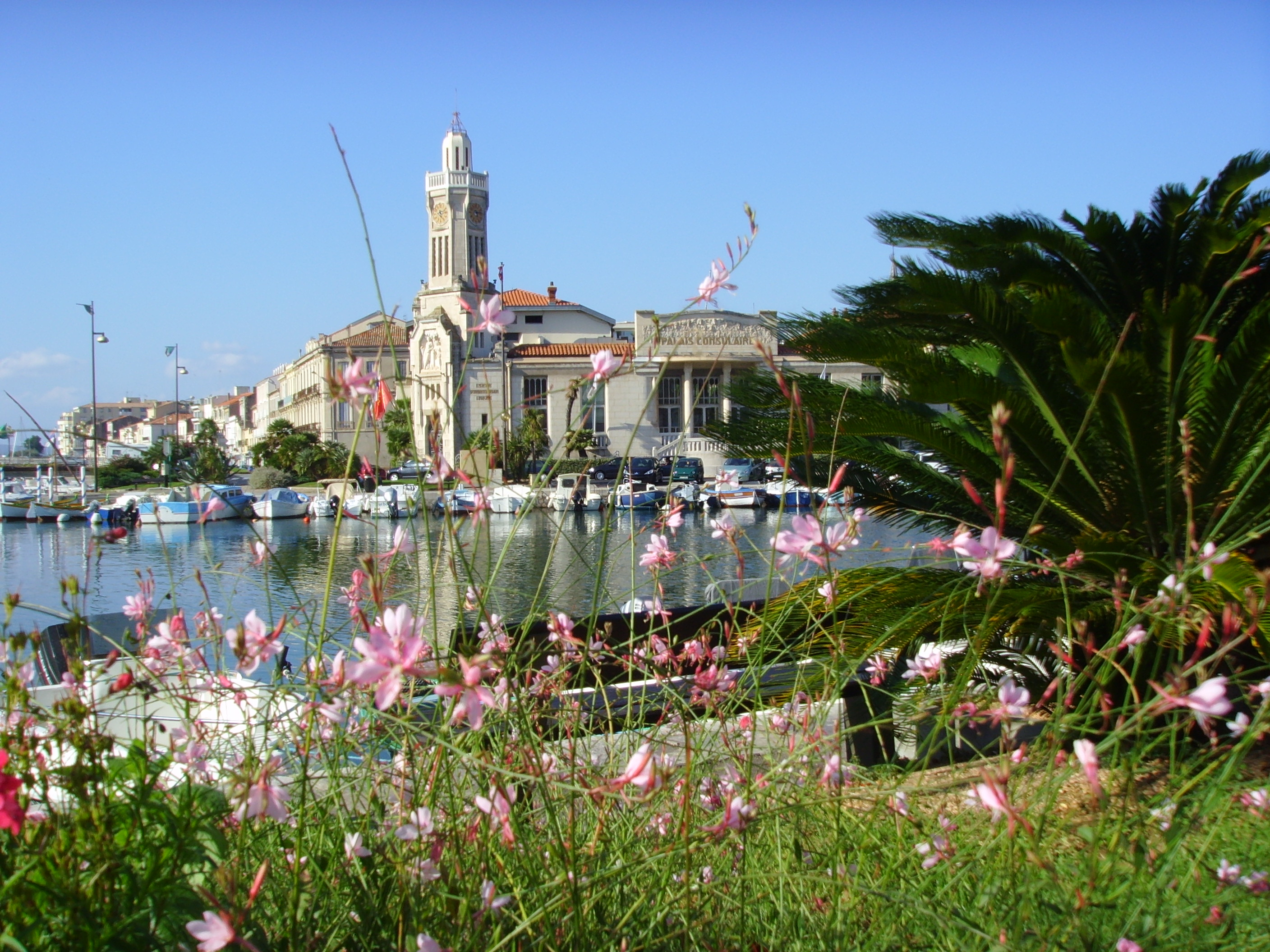 Sète, France